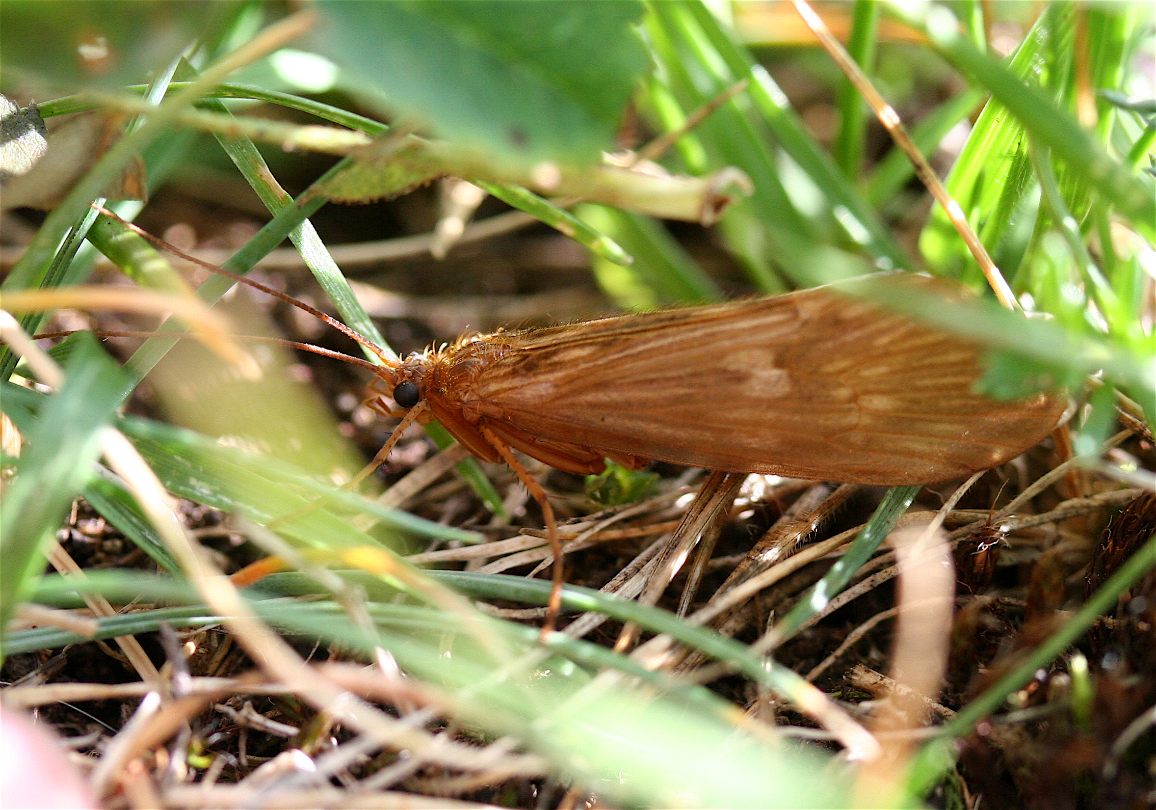 Trichoptera